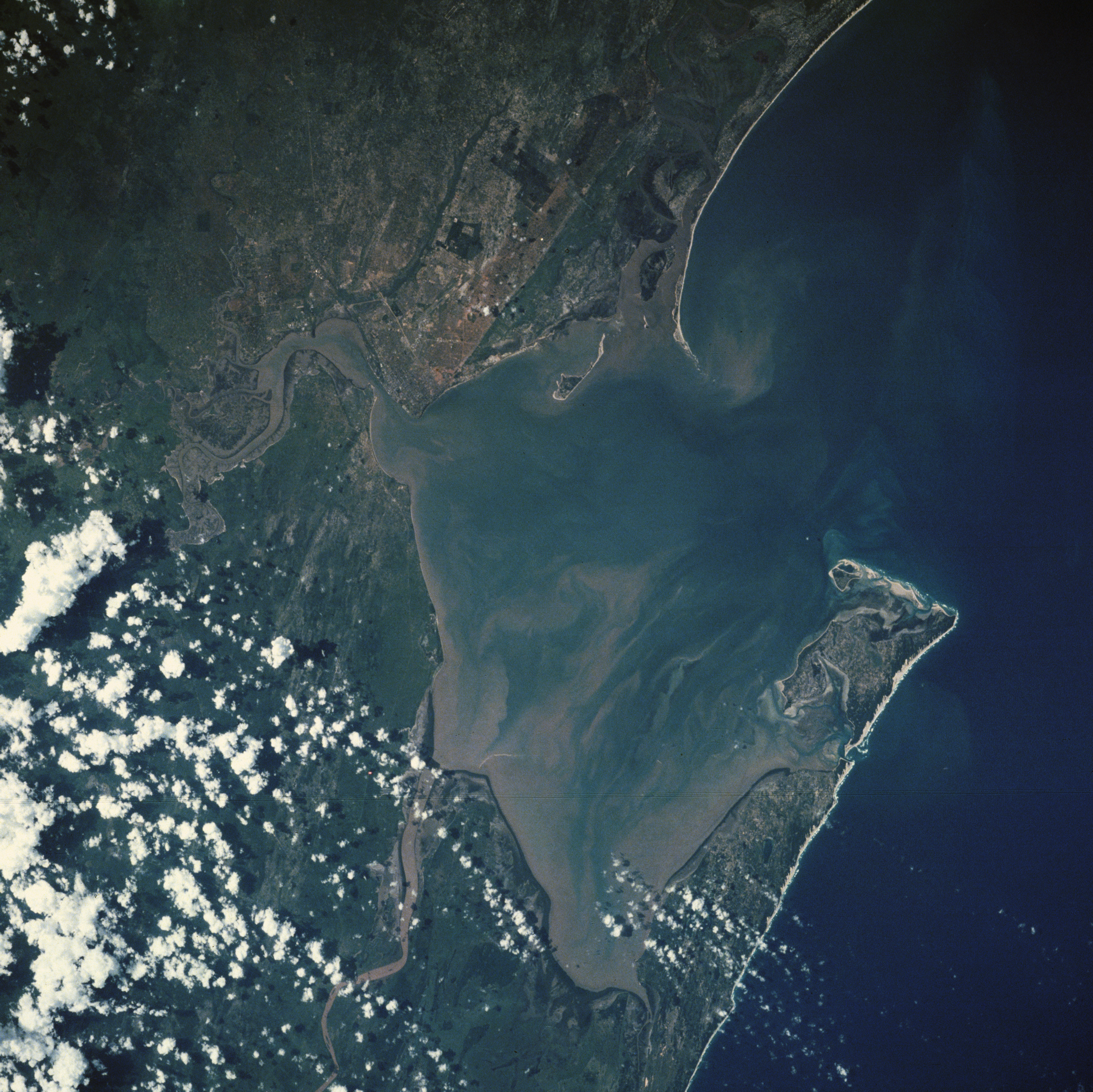 NASA picture of Maputo Bay (formerly Delagoa Bay)